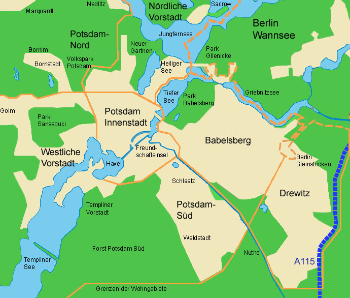 Stadtplan Potsdam (Map of Potsdam, Germany)